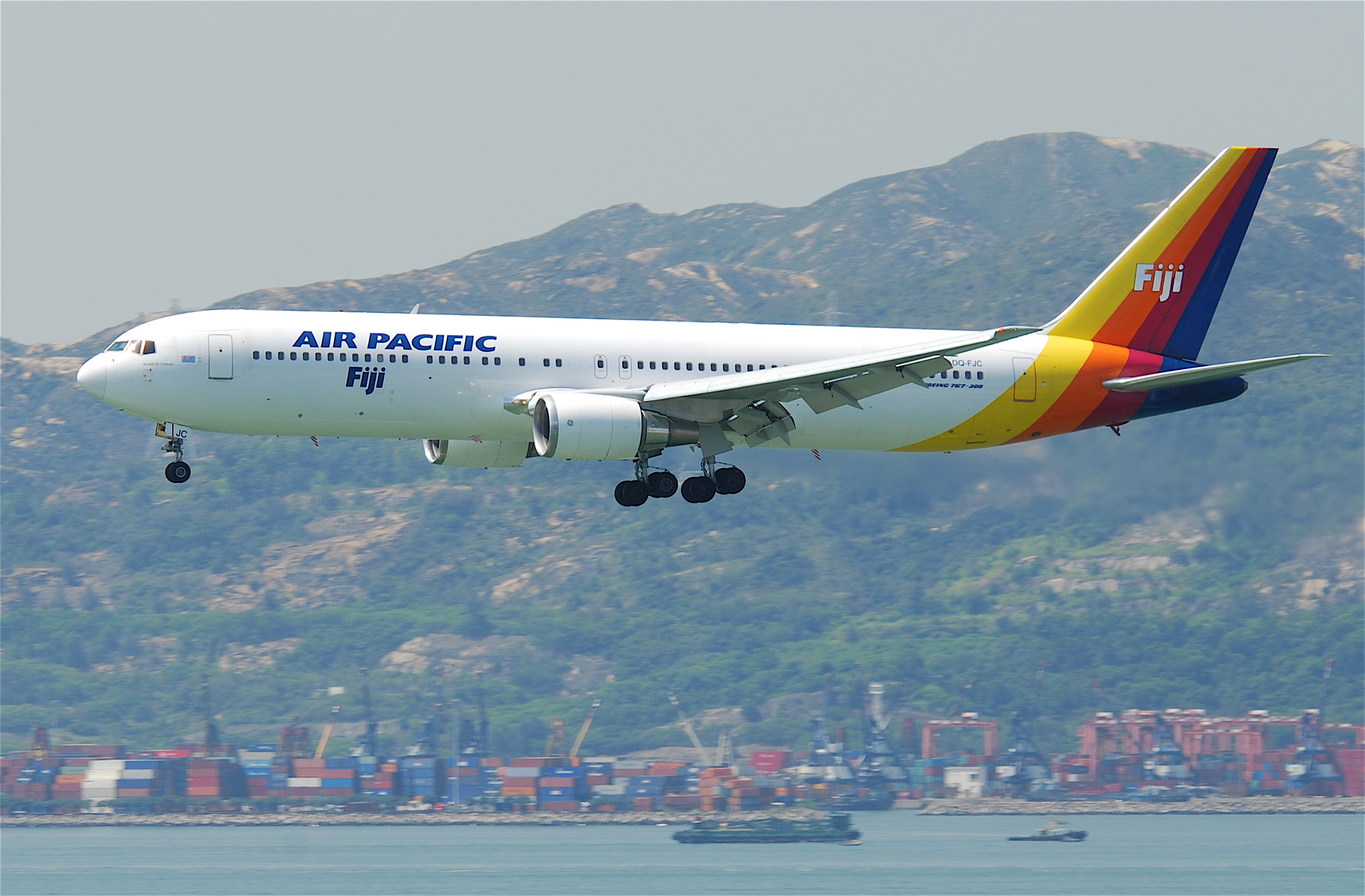 Air Pacific Boeing 767-300; DQ-FJC@HKG;04.08.2011/615su